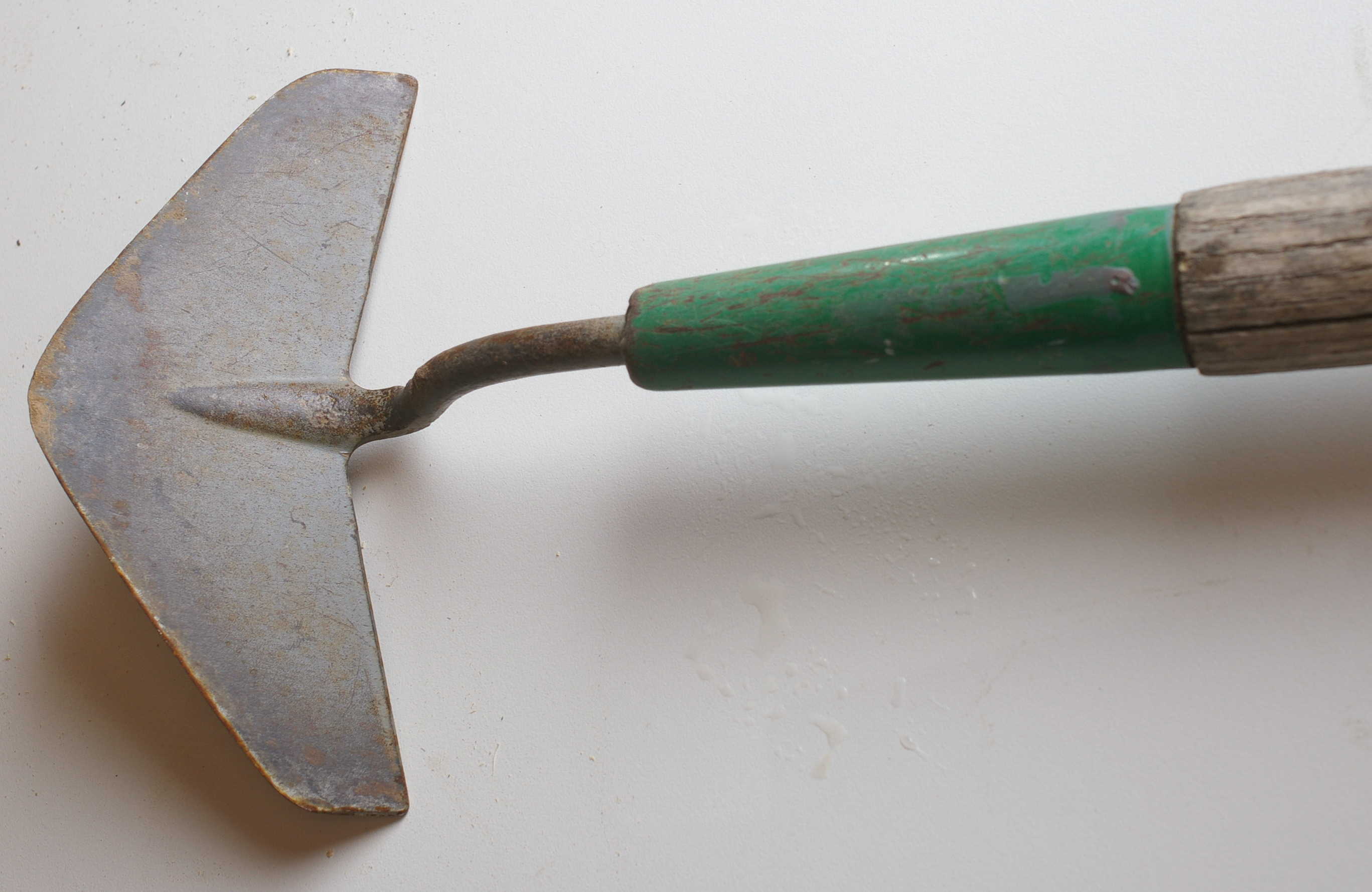 A weeder (push hoe). The handle is about 5 feet long.